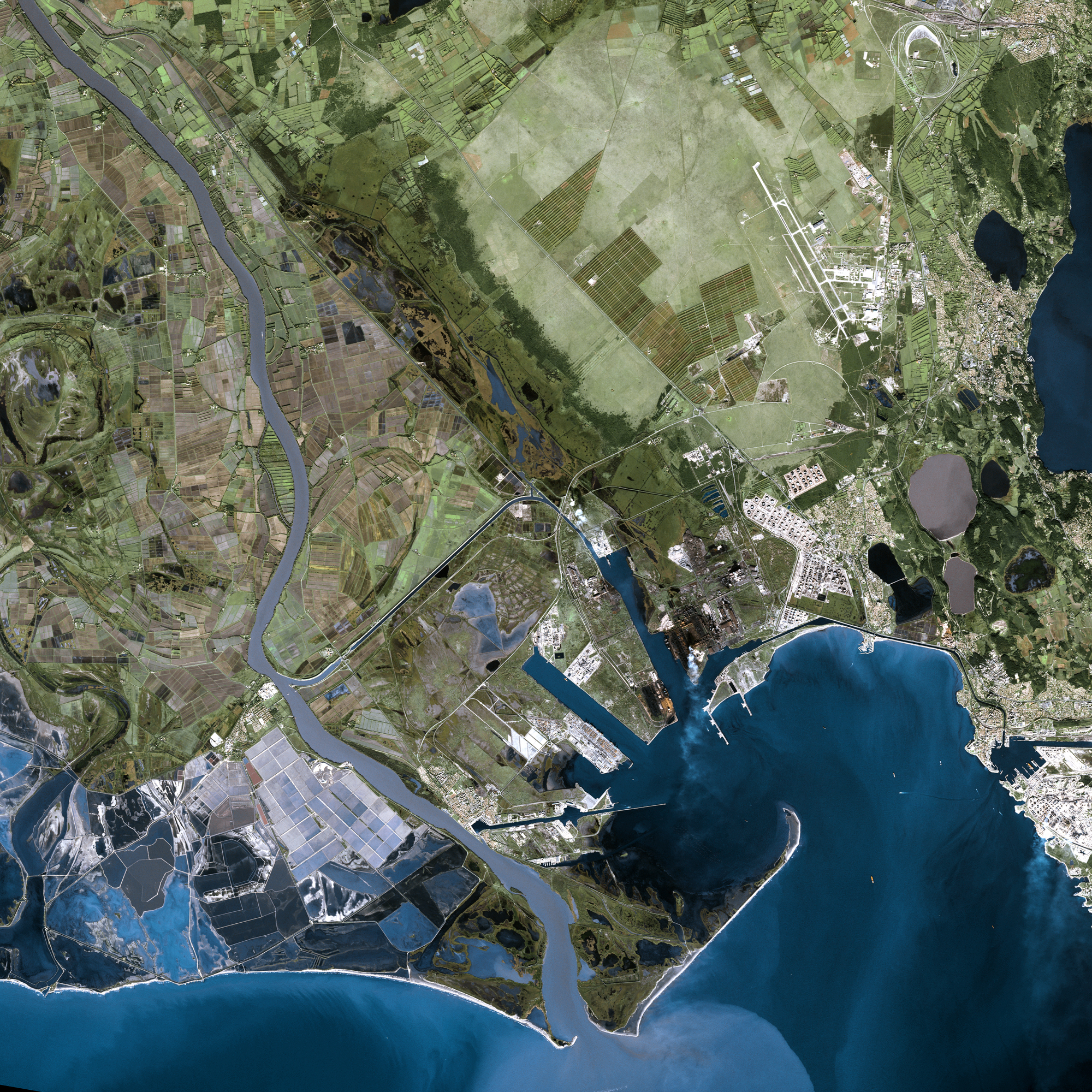 Rhone River by SPOT Satellite